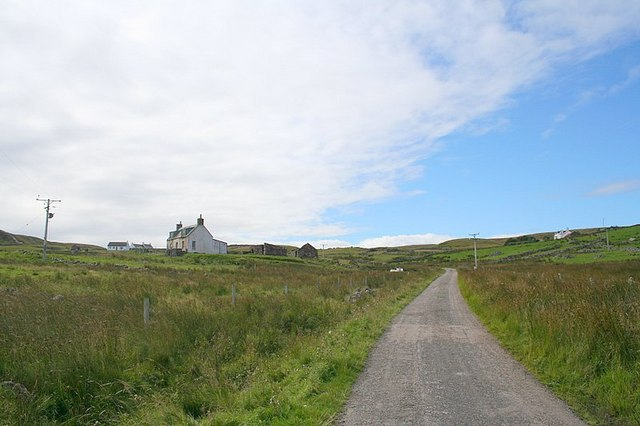 Houses at Culkein.